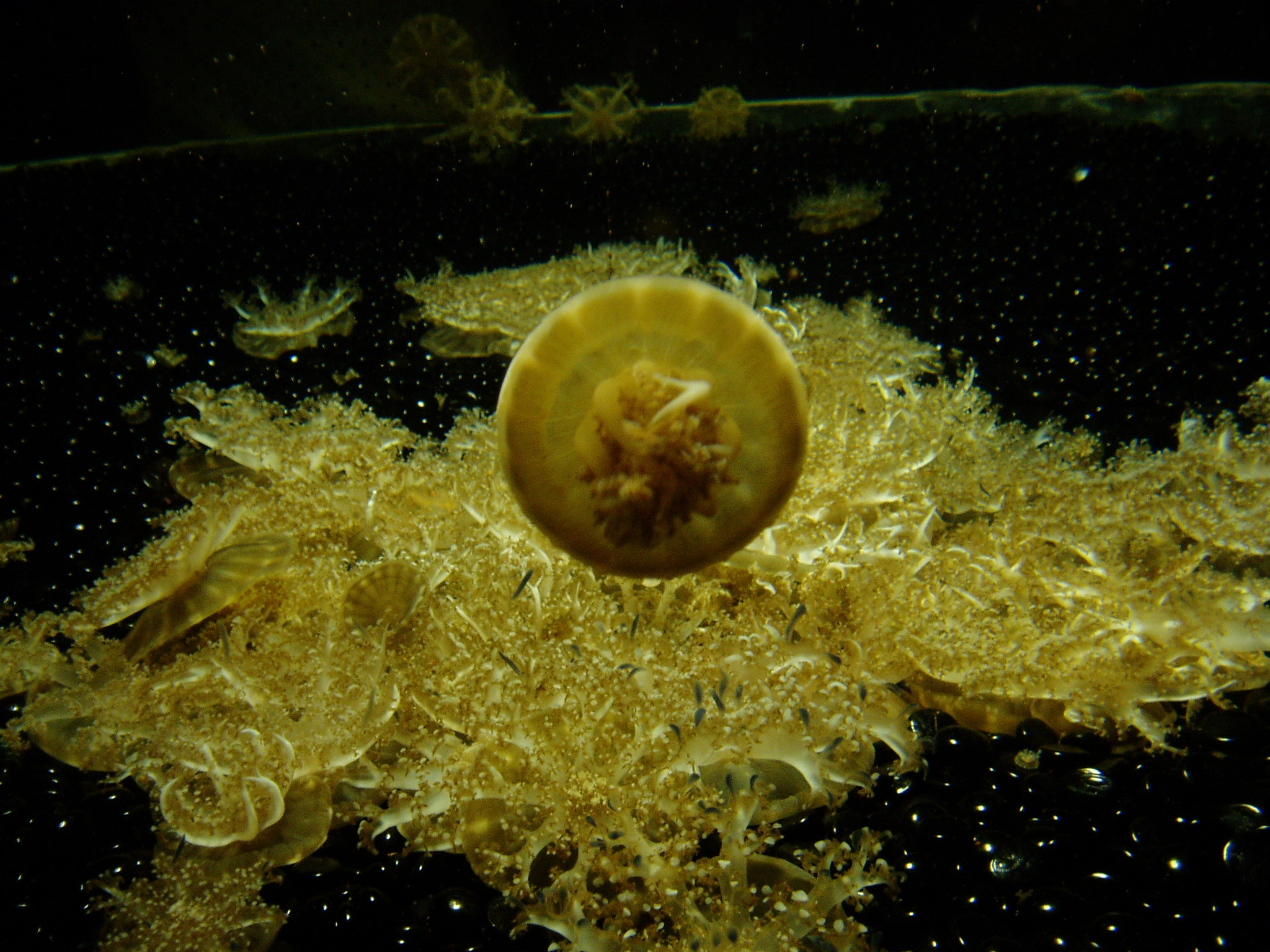 upside-down jelly, Cassiopea xamachana, Monterey Aquarium, 2006-06-01